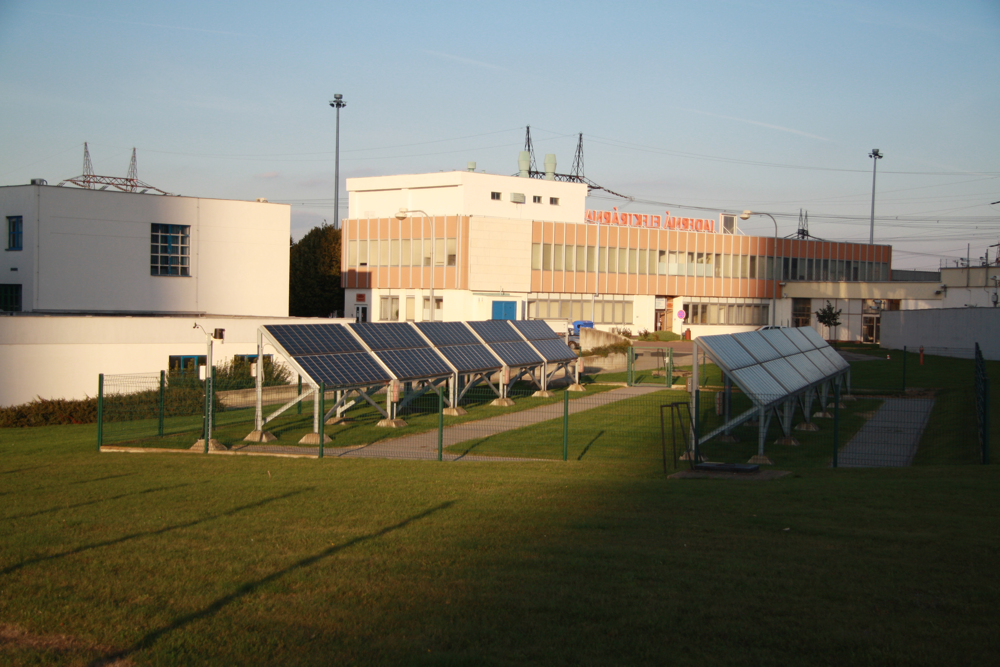 Solar power plant near Dukovany Nuclear Power Plant in Dukovany, Třebíč District.